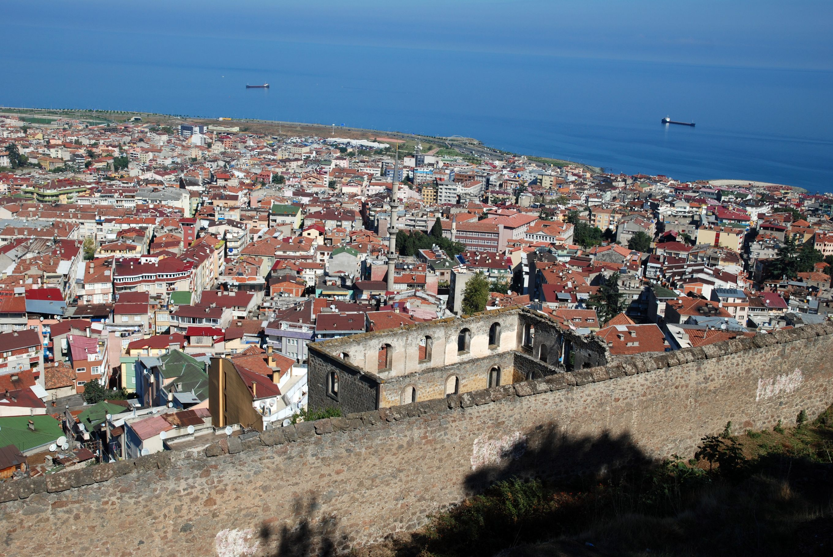 Trabzon, Kizlar Manastiri (Girls Monastery)